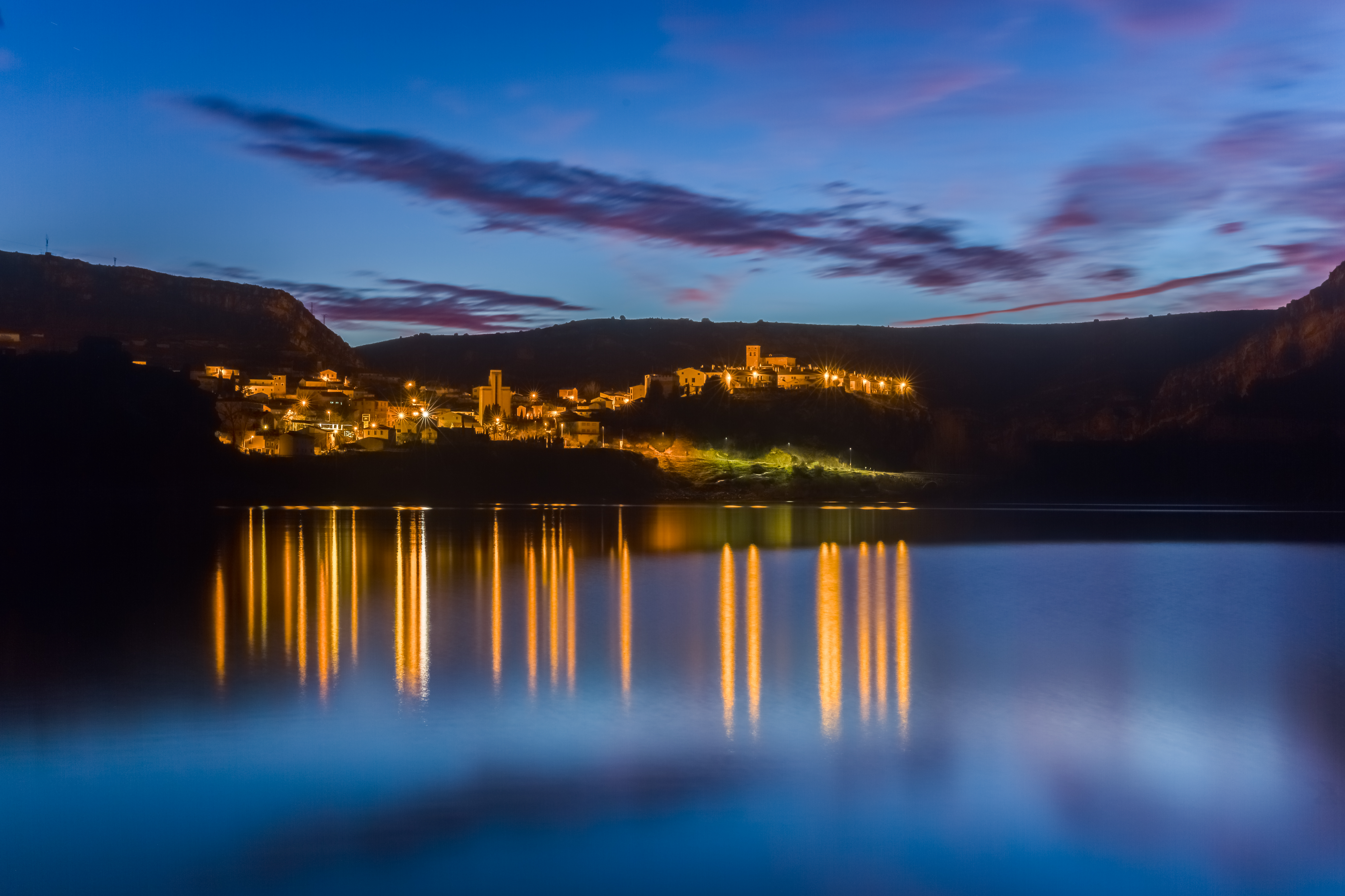 View of Nuévalos, Zaragoza, Spain